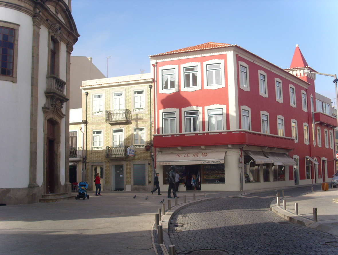 Place of an old hotel in Republica Square(former Sao Roque Square), Povoa de Varzim, Portugal